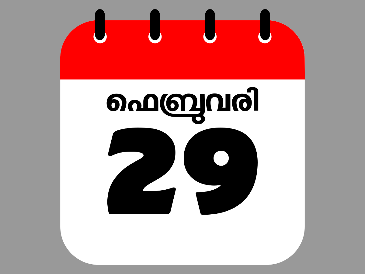 February 29 Leap day